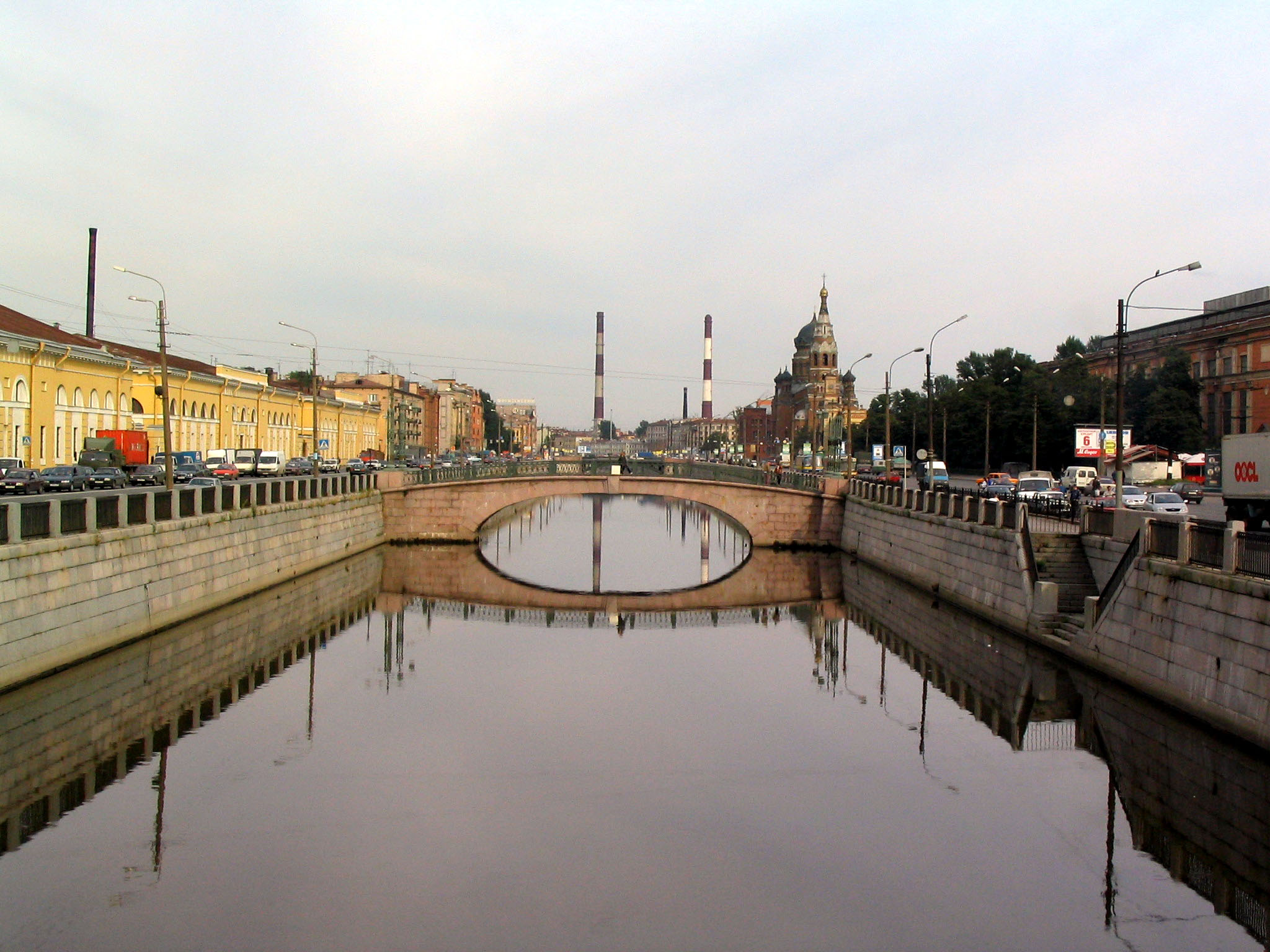 Baltic bridge on Obvodny Canal in Saint Petersburg